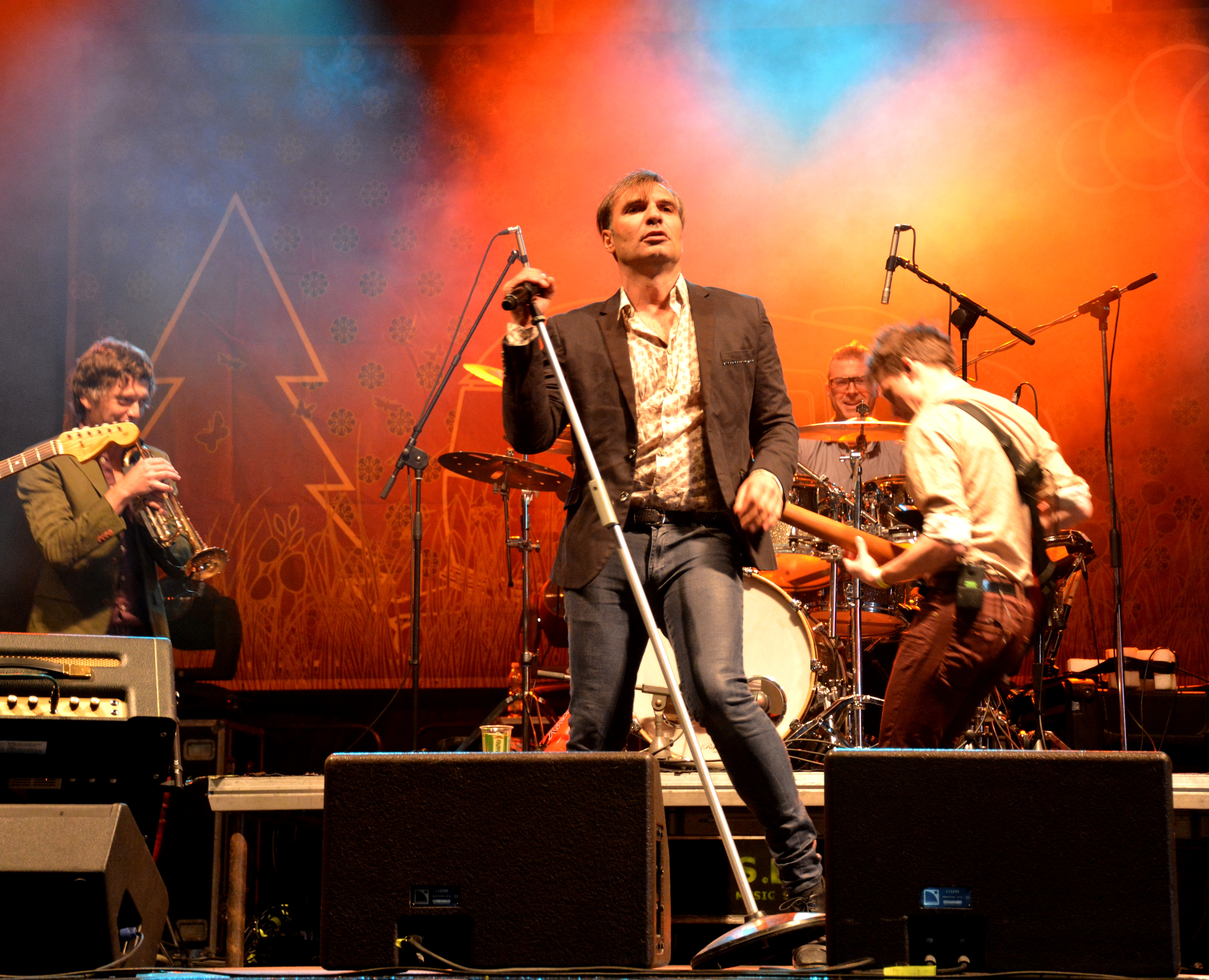 Jiří Macháček, Czech vocalist, with Mig 21 Band